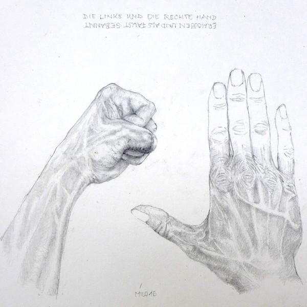 eine künstlerische Arbeit von Michael Lösel